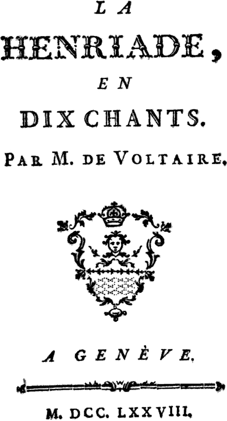 Title page from "La Henriade" (1778 Geneva edition), by Voltaire (1694-1778)